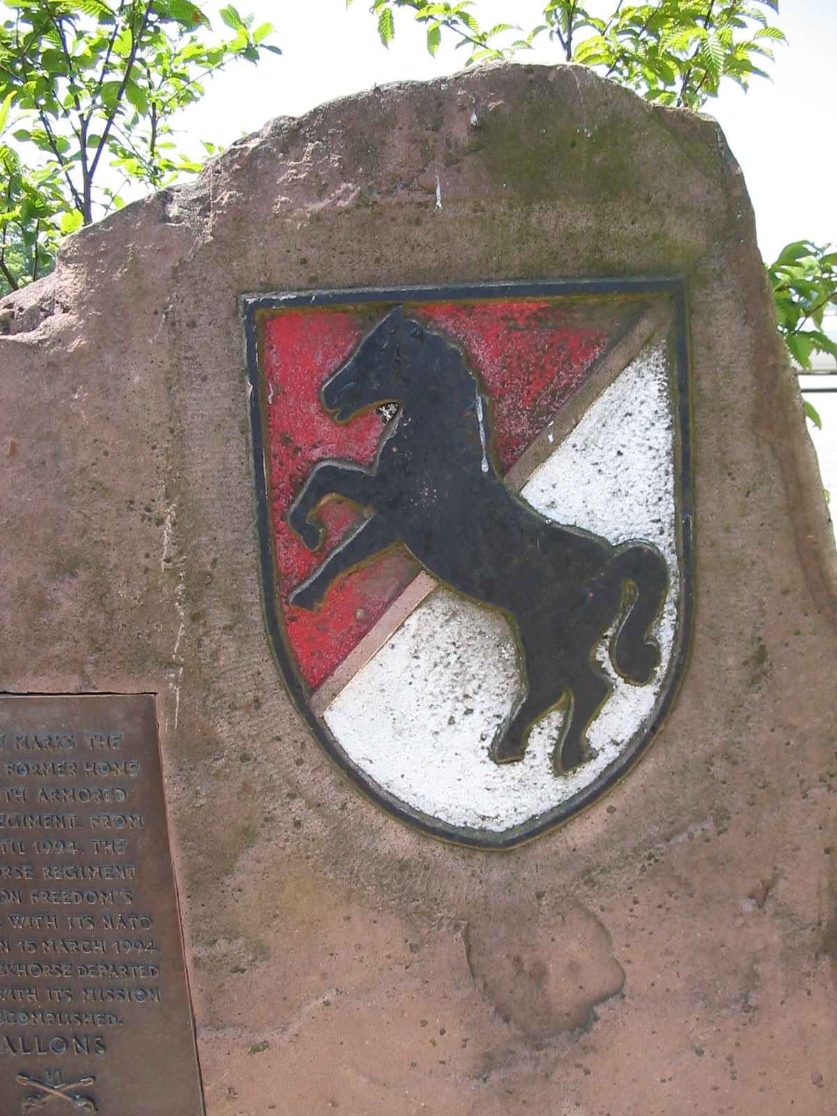 Photo taken by W. B. Wilson.